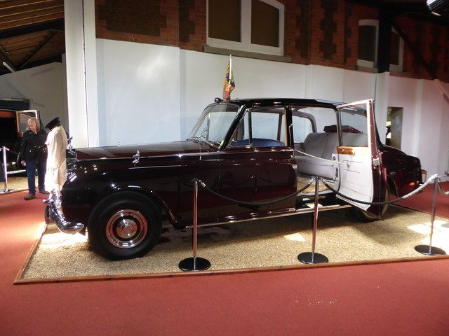 Inside Sandringham's Museum (III)